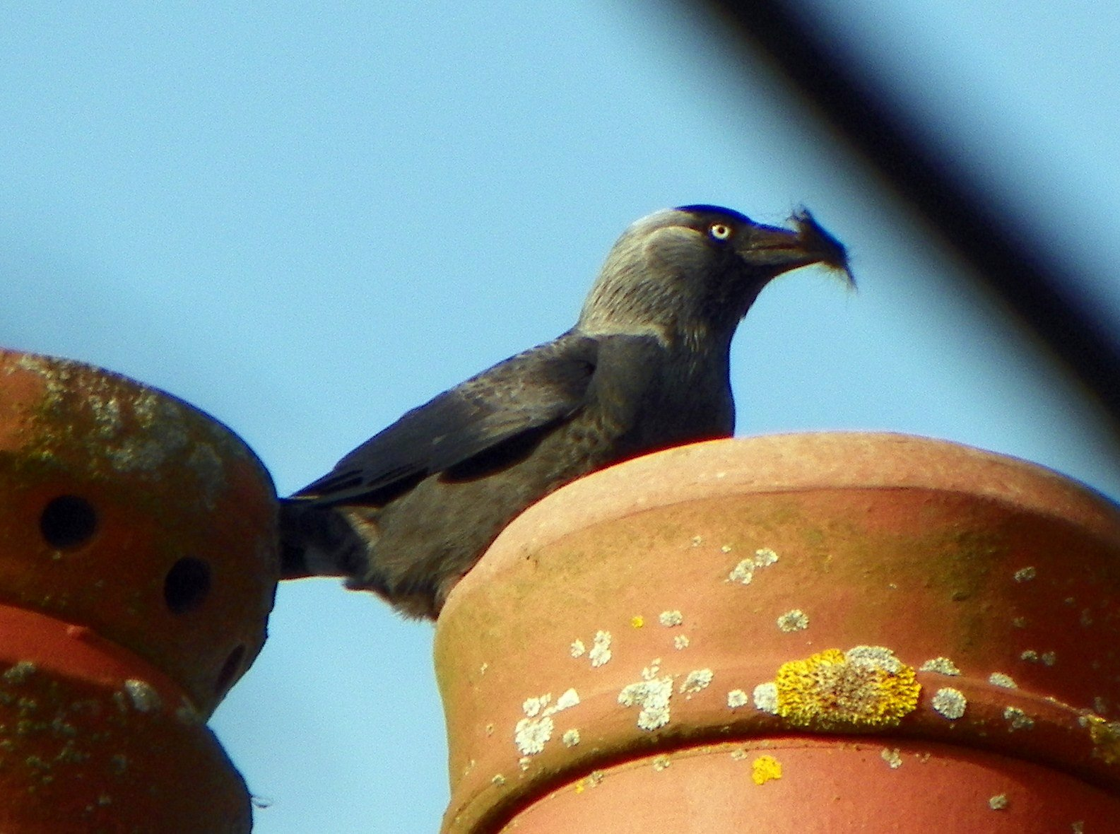 Sitting out in the pub's garden, I spotted this Jackdaw (Corvus monedula) building its next in the chimney. Herts GOC's walk in Lilley, Pegsdon and the surrounding countryside, 9 April 2011.